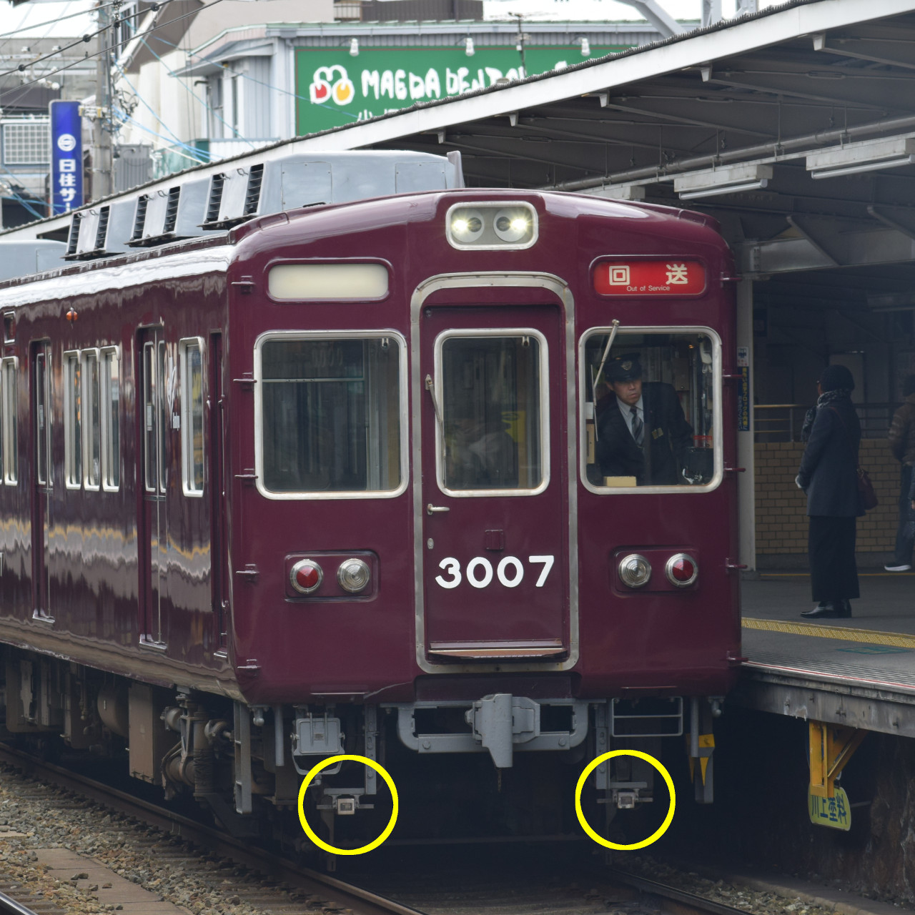 ATS receiver unit (the parts circled in yellow)